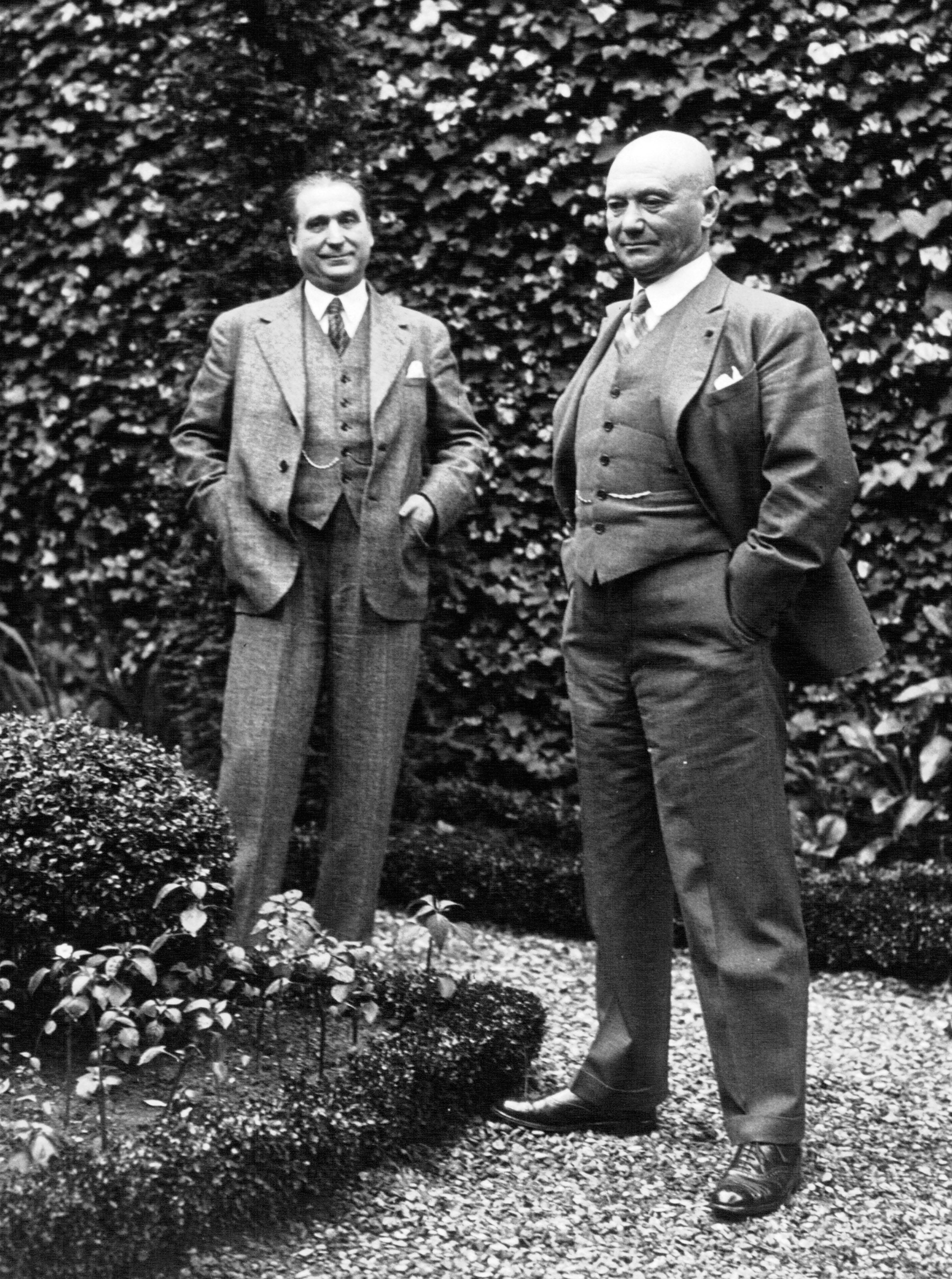 French writers Jean Tharaud (1877-1952) and Jérôme Tharaud (1874-1953).